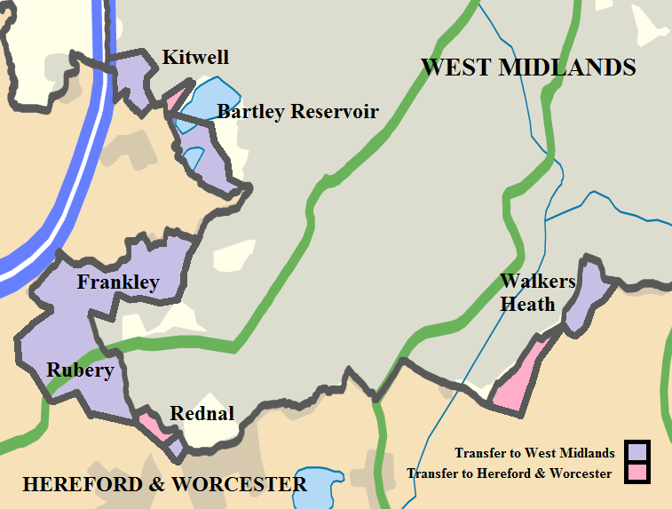 "Review of the West Midlands (City of Birmingham) Boundaries with Bromsgrove (Hereford & Worcester)" (Report No. 629) 09 January 1992 - Map showing the proposals transferring territory between Hereford & Worcester and the West Midlands. Local Government Boundary Commission for England "Review of the West Midlands (City of Birmingham) Boundaries with Bromsgrove (Hereford & Worcester)" (Report No. 629